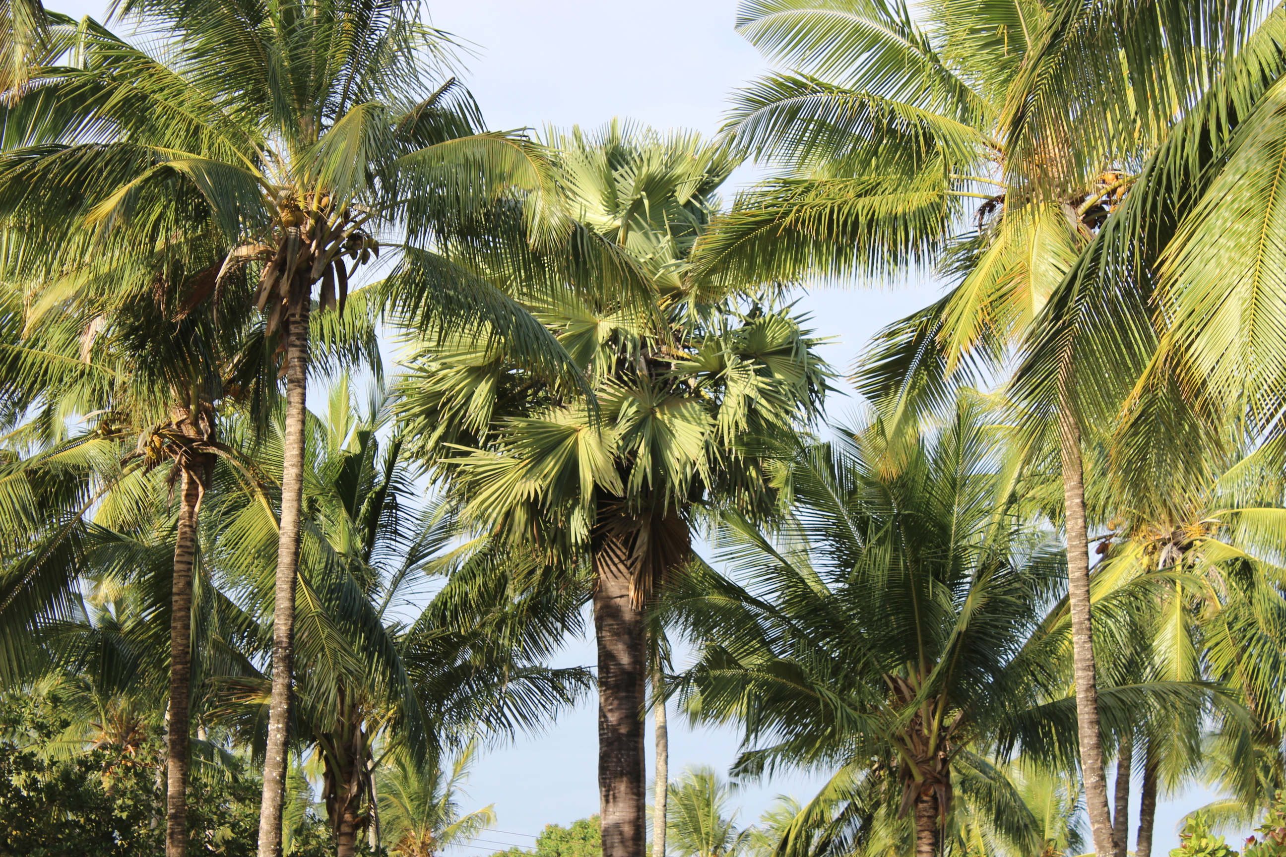 This is an image of "African people at work" from Kenya